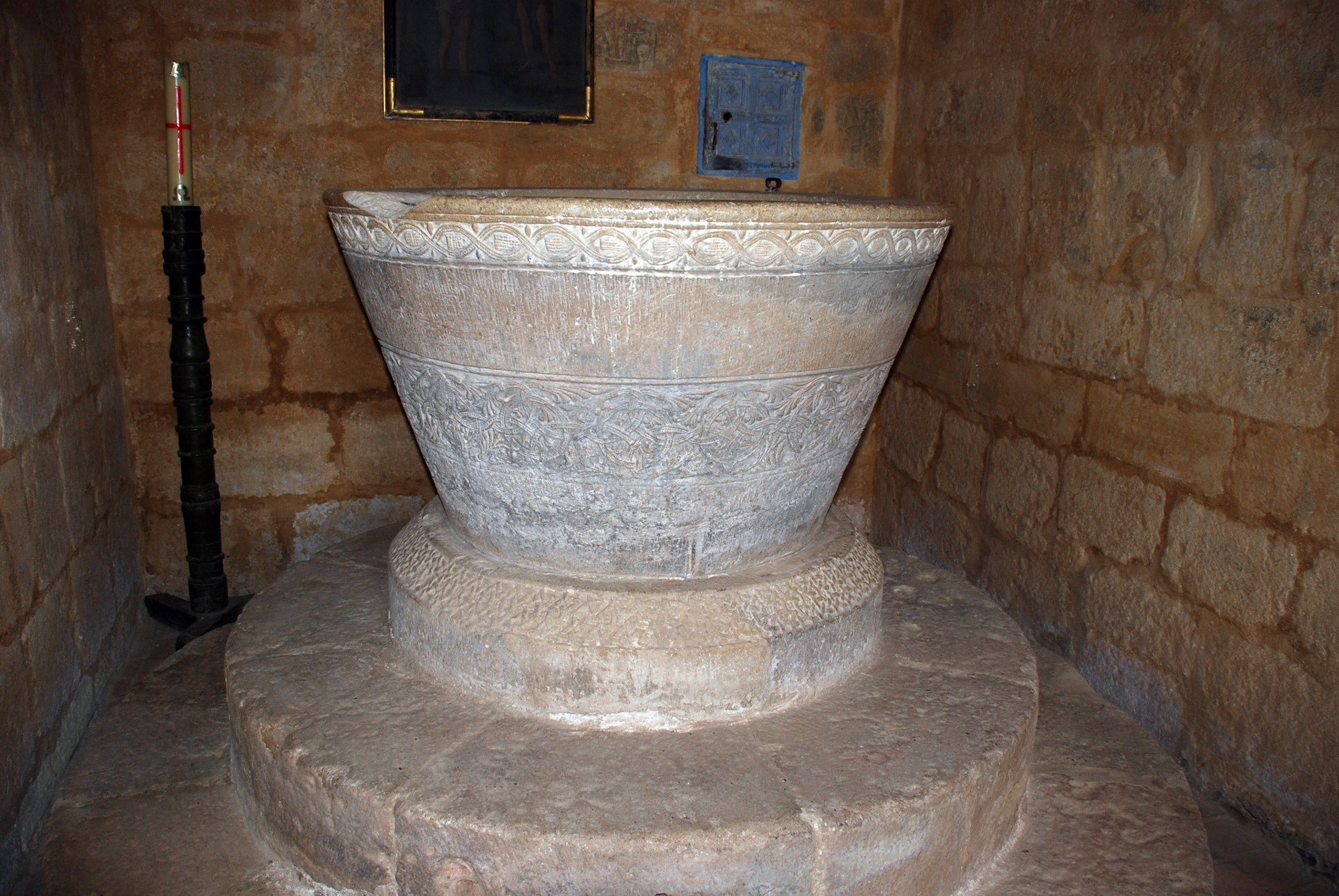 Baptismal font of San Lorenzo in Zorita del Páramo (Palencia, Castile and León)